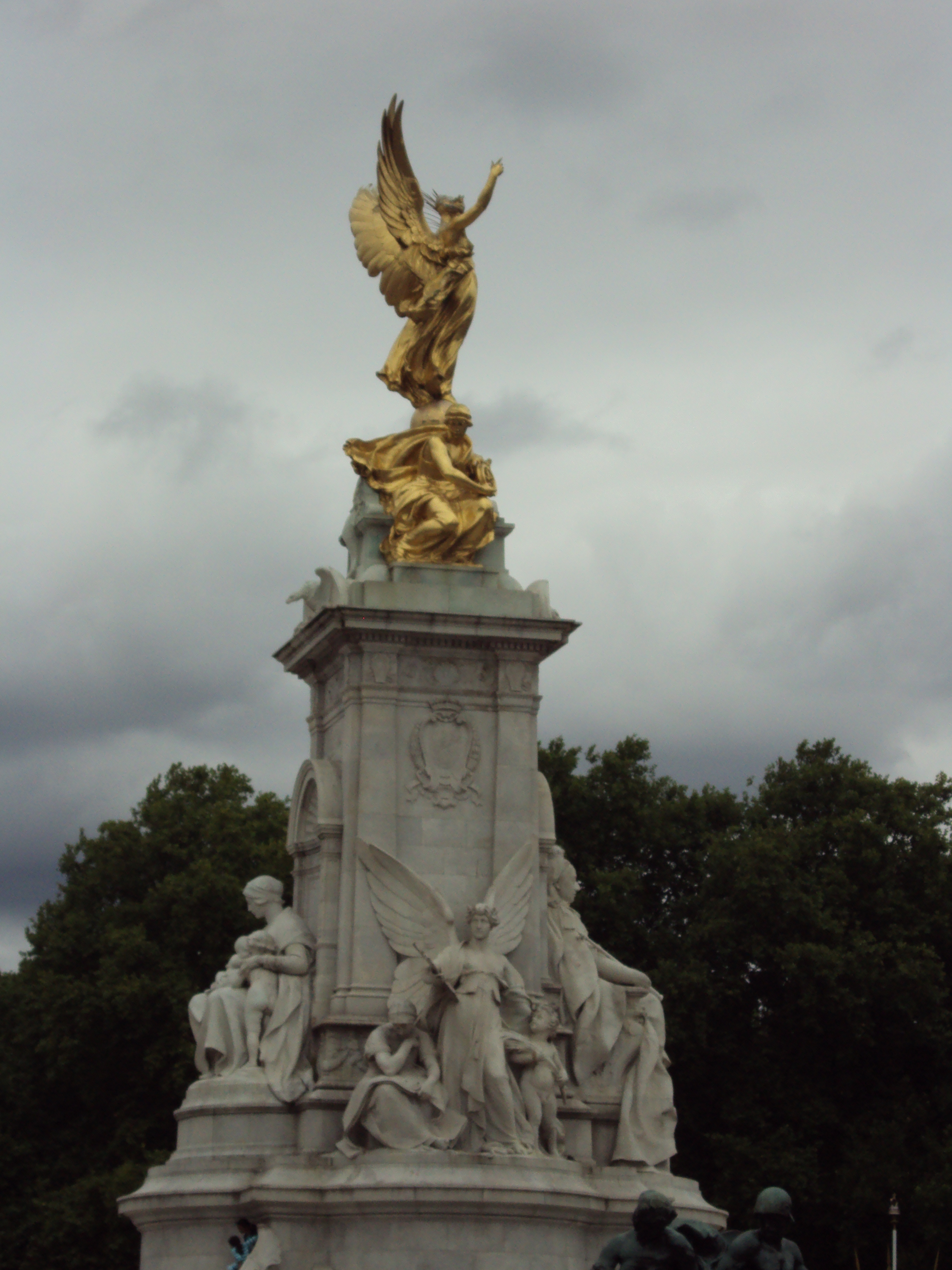 The Victoria Memorial in front of Buckingham Palace, London, England.